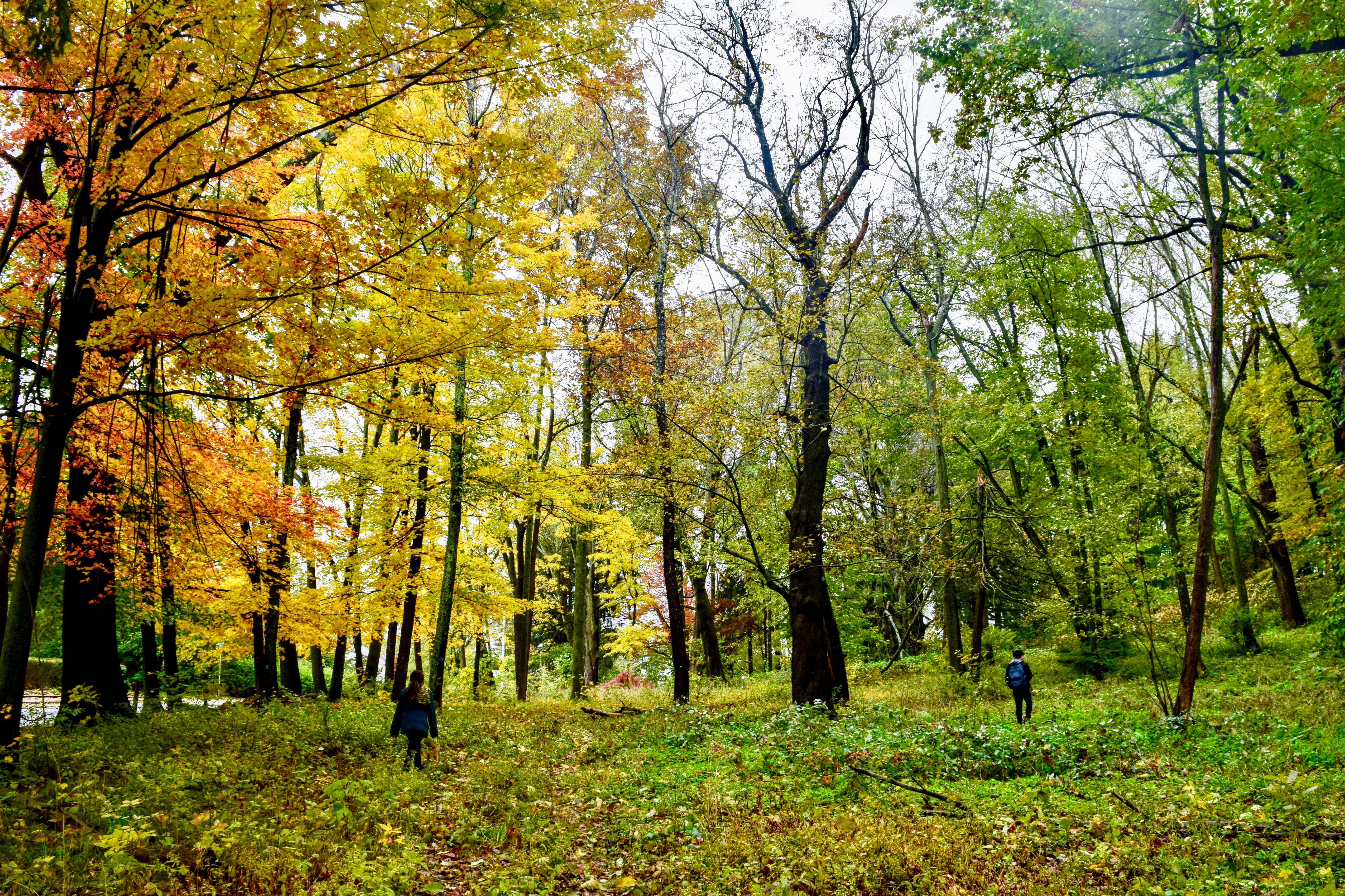 Autumn foliage in the Hadwen Arboretum